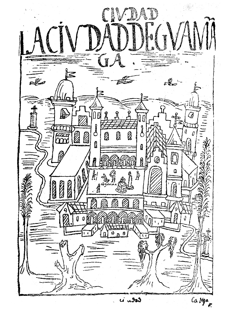 Guaman Poma